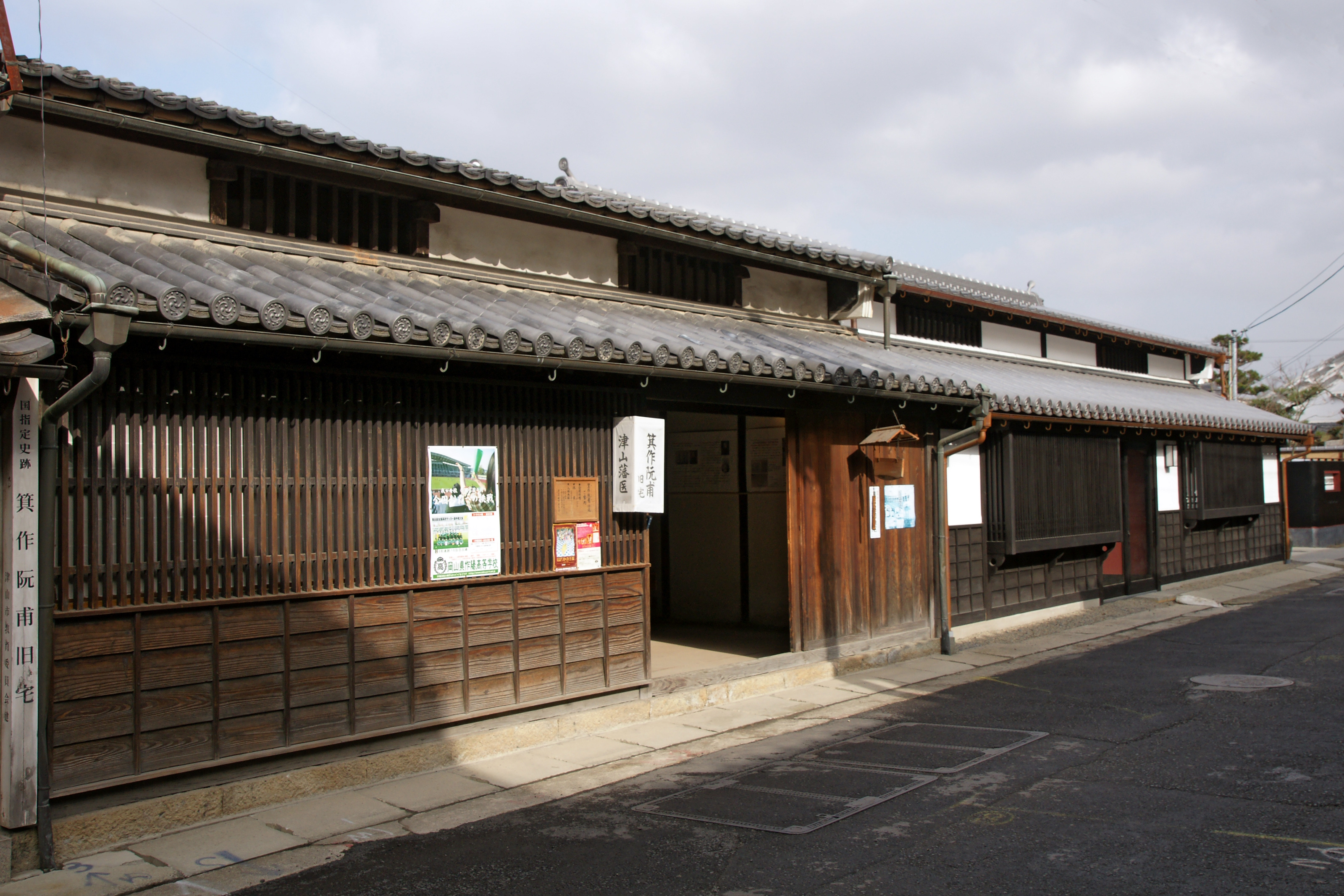 Former Genpo Mitsukuri House in Tsuyama, Okayama prefecture, Japan.